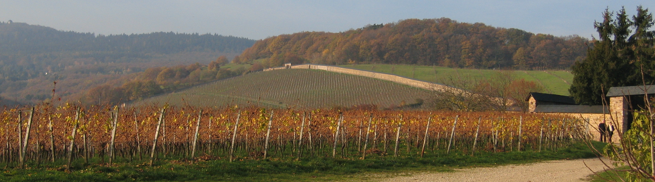 Steinberg vineyard near Hattenheim and Eberbach Abbey in Rheingau, Germany